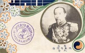 A Korean postcard commemorating the establishing of Residency-General in Korea.